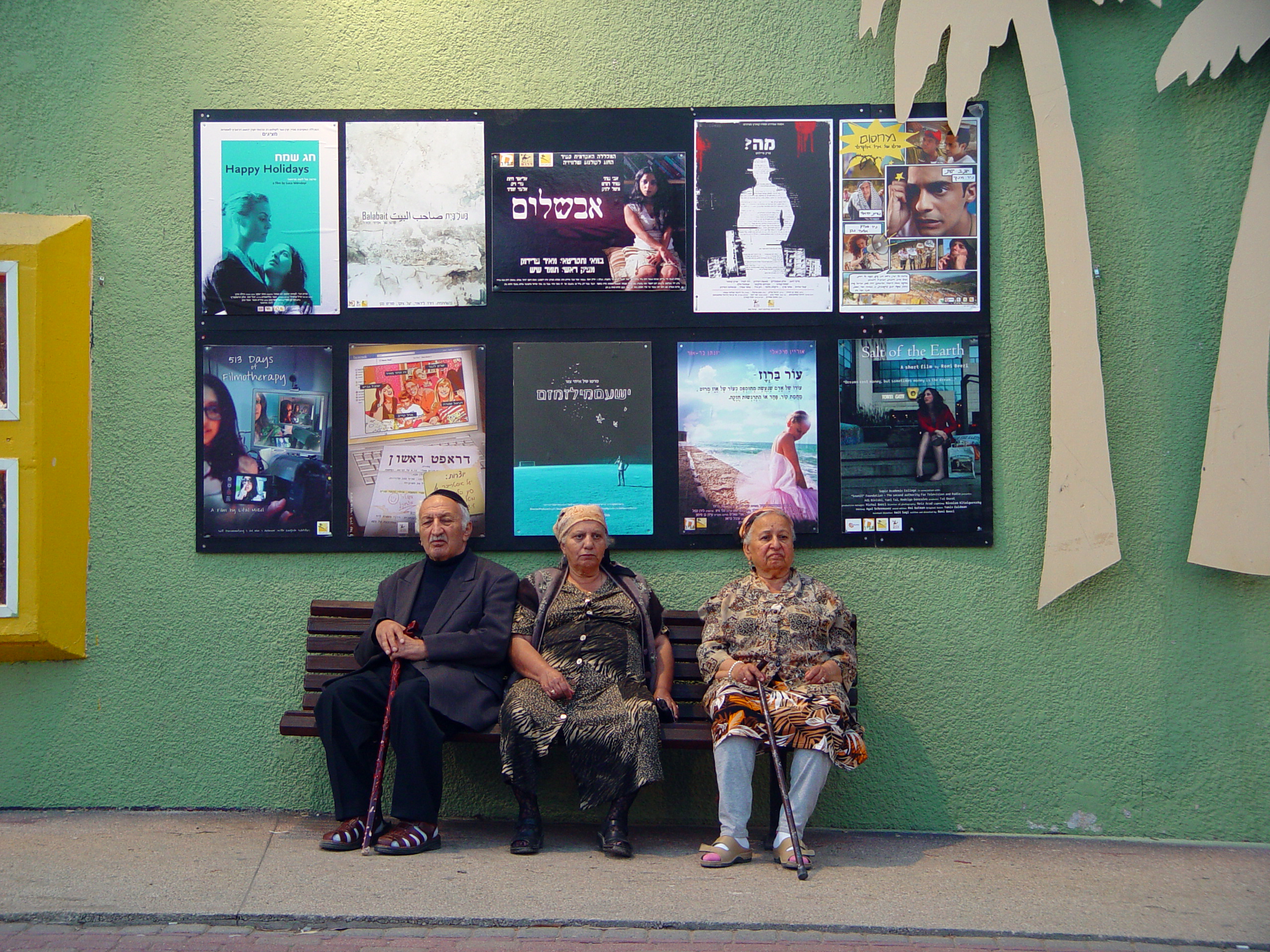 Sderot (Israel) local residents and posters of Cinema South festival